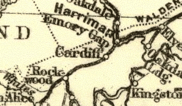 Detail of an 1892 railroad map showing the Roane County, Tennessee area, and the location of the former city of Cardiff. Originally published as "Map Showing the Proposed Tennessee, Alabama and Georgia Railroad, Connecting and Extending the Chattanooga Shouthern Railway, Marietta and North Georgia Railway, Knoxville, Cumberland Gap and Louisville Railroad, and Morristown and Cumberland Gap Railroad."